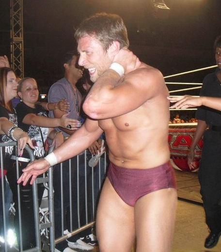 Daniel Bryan at a Puerto Rico House show.